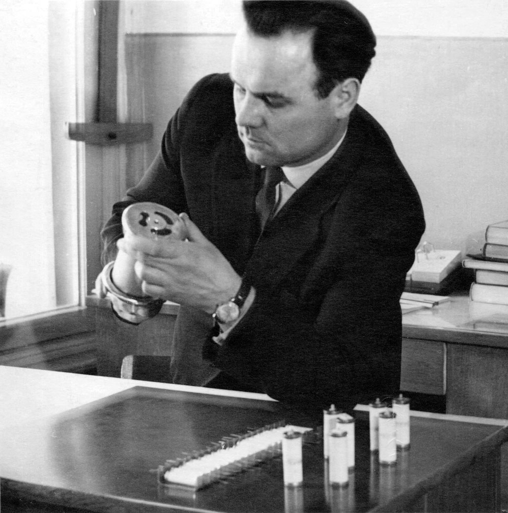 Ion Drabenco